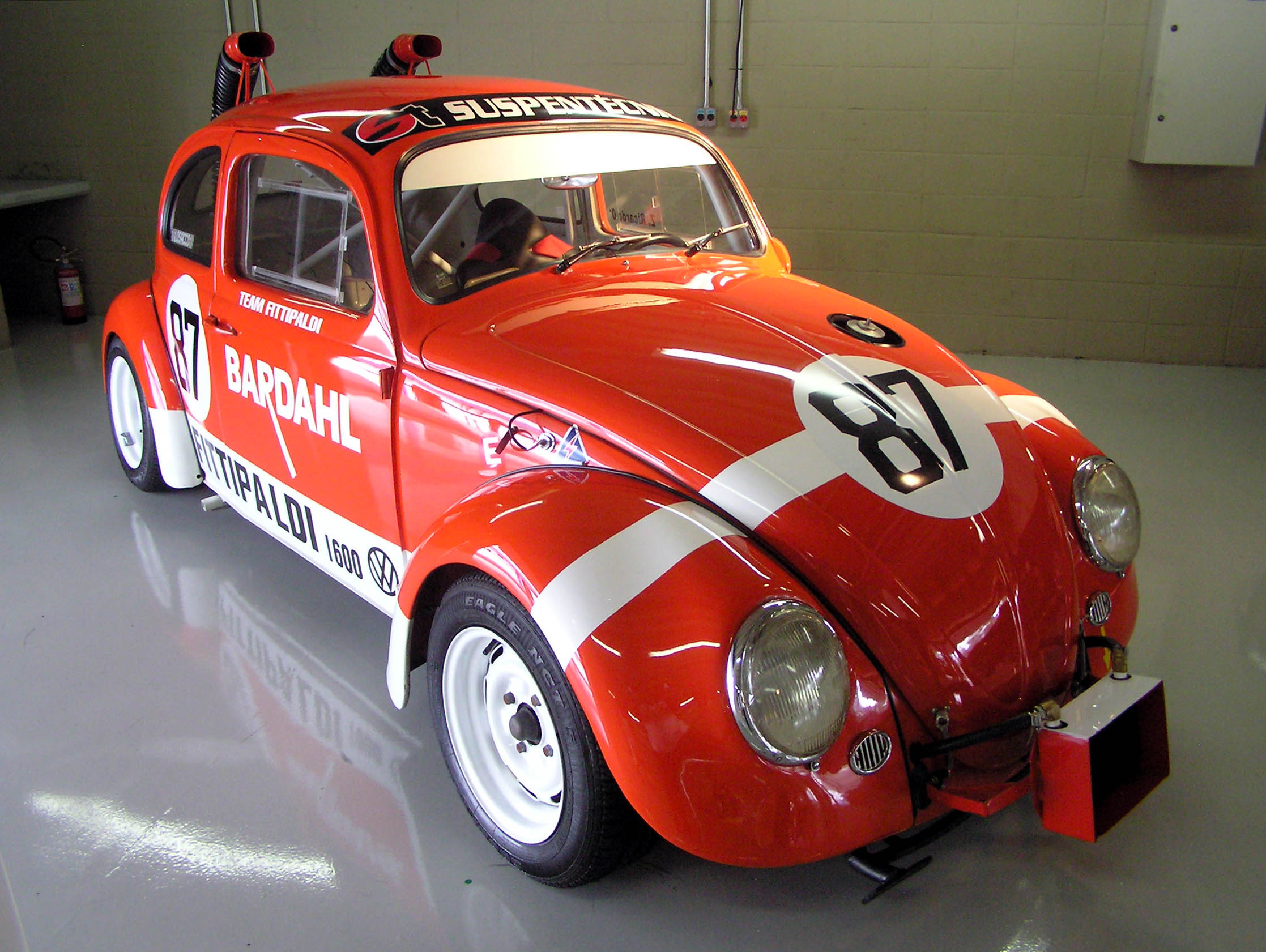 Wilson & Emerson Fittipaldi brothers' twin-engined Volkswagen Beetle (Fittipaldi-Bardahl, 1967)Owner: Museu do Automobilismo Brasileiro